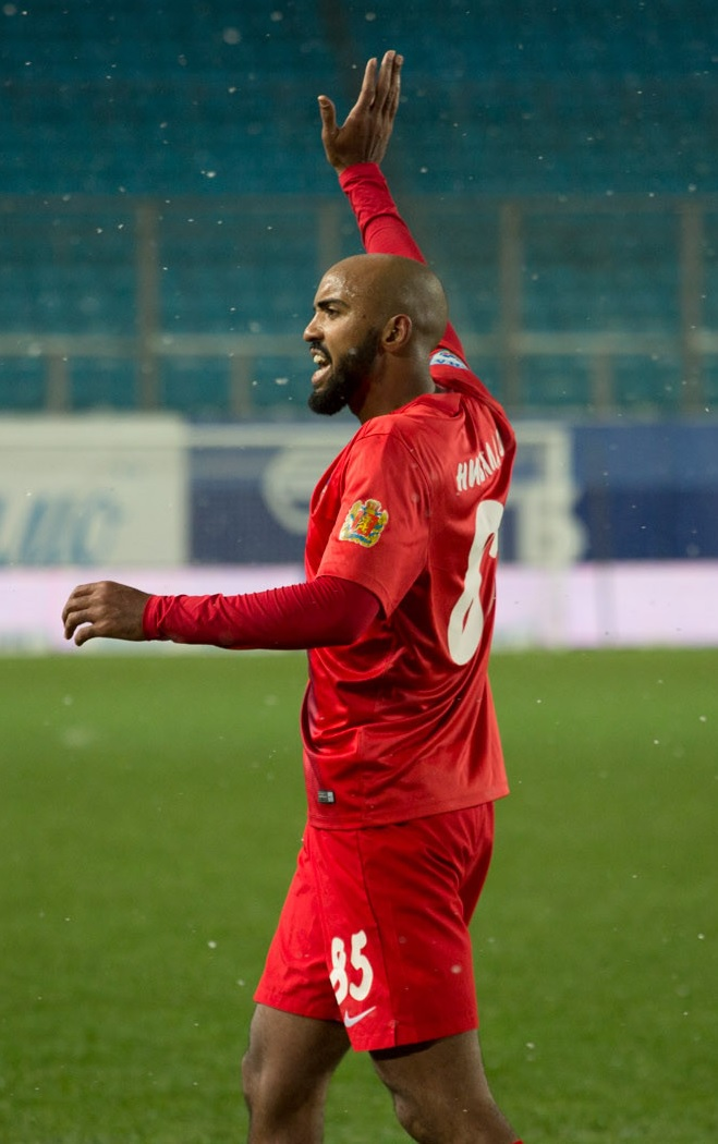 Nivaldo Rodrigues Ferreira with FC Yenisey Krasnoyarsk in a game against FC Dynamo Moscow.